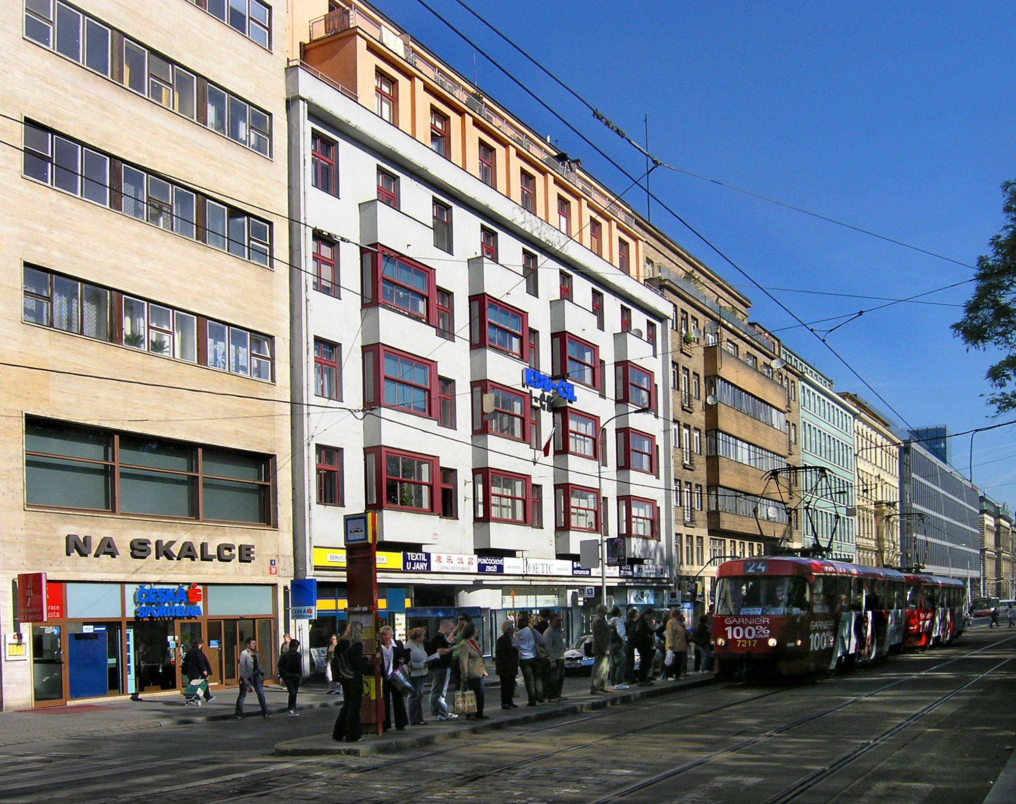 Christian and Democratic Union – Czechoslovak People's Party Office, Karlovo square, Prague